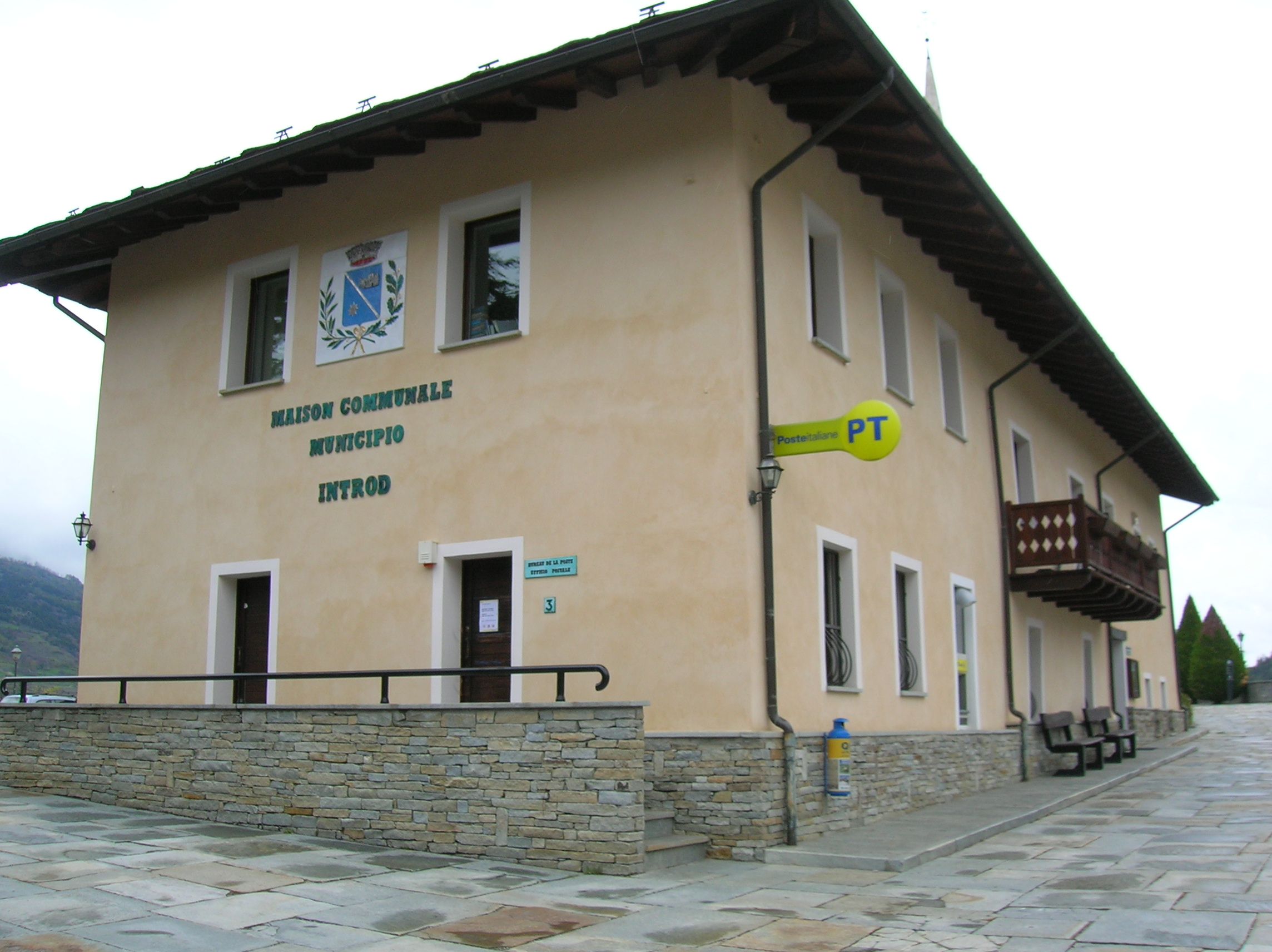 Town hall of Introd, in Aosta Valley, Italy.